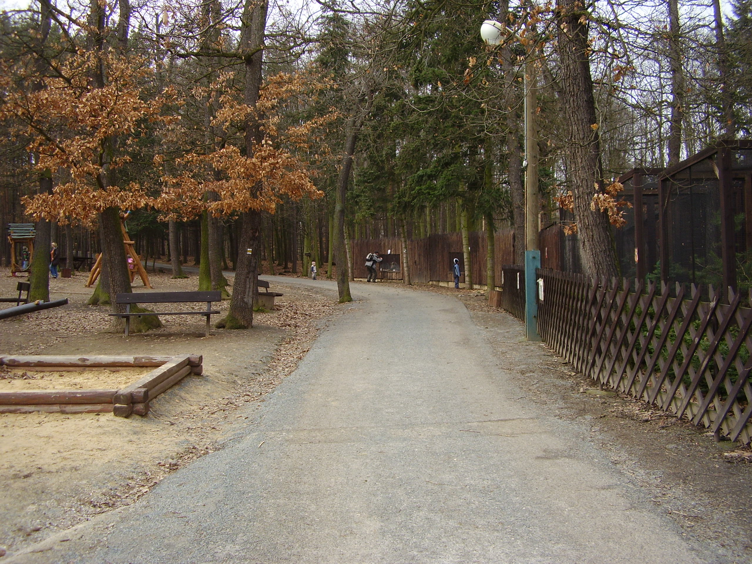 MiniZOO in Malá Chuchle, Prague